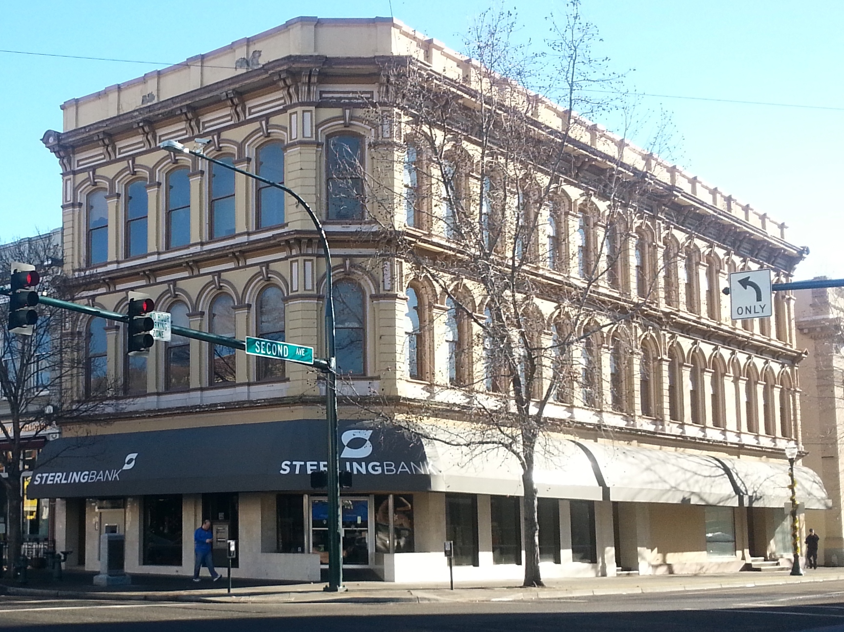 Picture of Sterling Bank building in Downtown Walla Walla